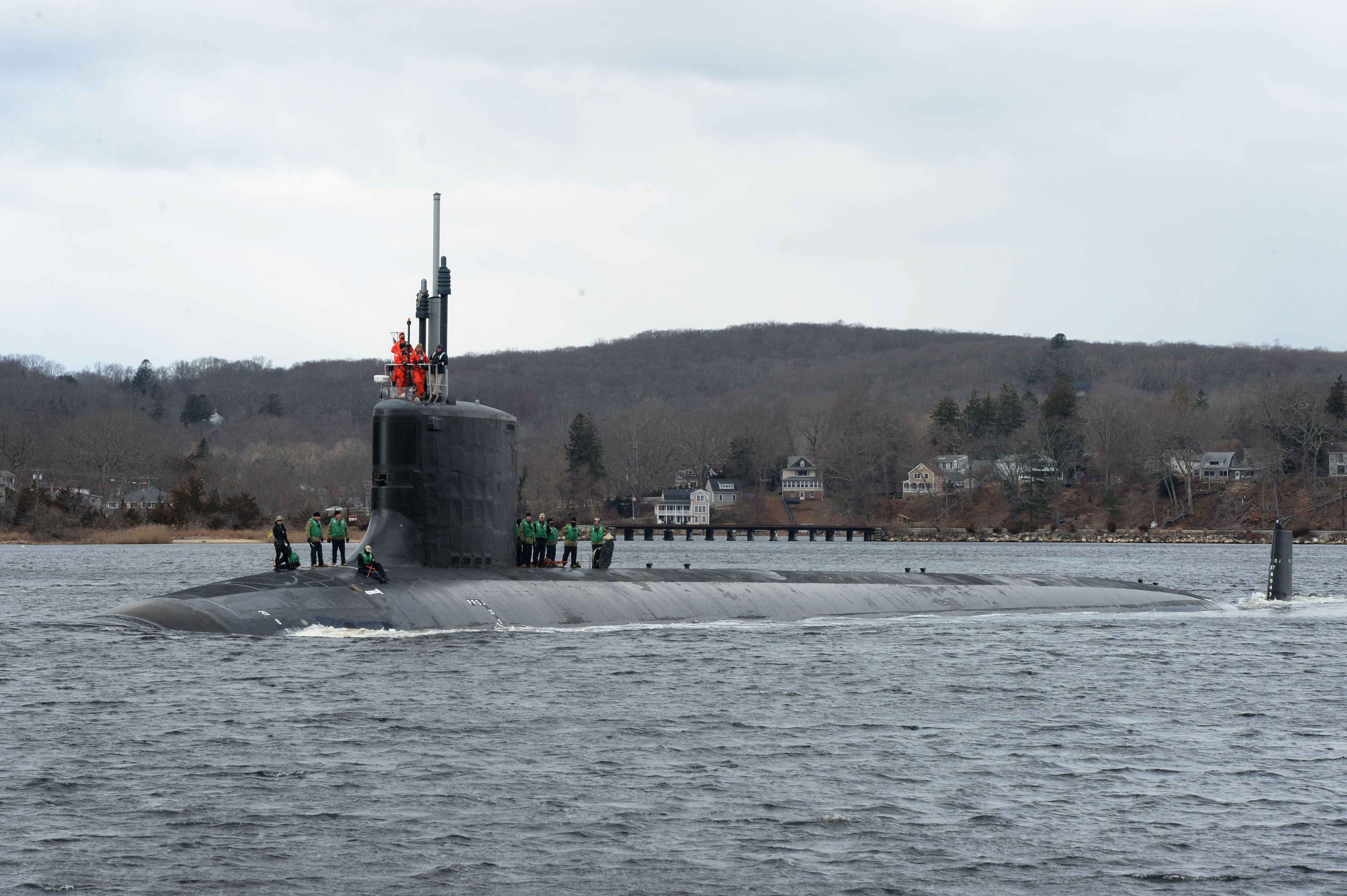 The U.S. Navy Virginia-class attack submarine USS South Dakota (SSN-790) transits the Thames River at Naval Submarine Base New London in Groton, Connecticut (USA), on 9 January 2019. South Dakota was the 17th Virginia-class submarine and was commissioned on 2 February 2019.